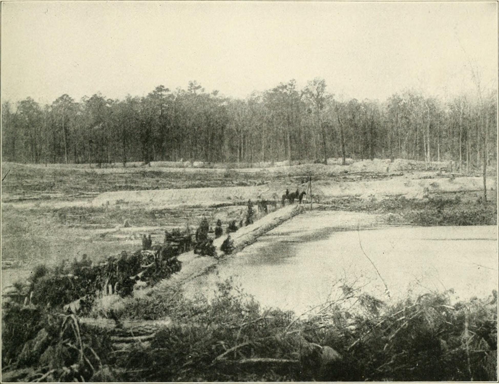 Title: The photographic history of the Civil War : thousands of scenes photographed 1861-65, with text by many special authorities Year: 1911 (1910s) Authors: Miller, Francis Trevelyan, 1877-1959 Lanier, Robert S. (Robert Sampson), 1880- Subjects: United States -- History Civil War, 1861-1865 Pictorial works United States -- History Civil War, 1861-1865 Publisher: New York : Review of Reviews Co. Text Appearing Before Image: ' Text Appearing After Image: COPYRIGHT, 19)1, REVIEW OF REVIEWS CO. COWANS BATTERY ABOUT TO ADVANCE ON MAY 4, 1862 THE NEXT DAY IT LOST ITS FIRST MEN KILLED IN ACTION, AT THE BATTLE OF WILLIAMSBURG Lieutenant Andrew Cowan, commanding, and First-Lieutenant William F. Wright, sit their horses on thefarther side of the Warwick River, awaiting the order to advance. After the evacuation of Yorktown by theConfederates on the previous night, Lees Mills became the Federal left and the Confederate right. TheCon federate earthworks are visible in front of the battery. This spot had already been the scene of a bloodyengagement. The First Vermont Brigade of General W. F. Smiths division, Fourth Corps, had chargedalong the top of the dam and below it on April Kith and had gained the foremost earthwork, called the WaterBattery. But General Smith received orders not to bring on a general engagement. The Vermonters werewithdrawn, suffering heavily from the Confederate fire. Their dead were recovered, under a flag of truce, afew